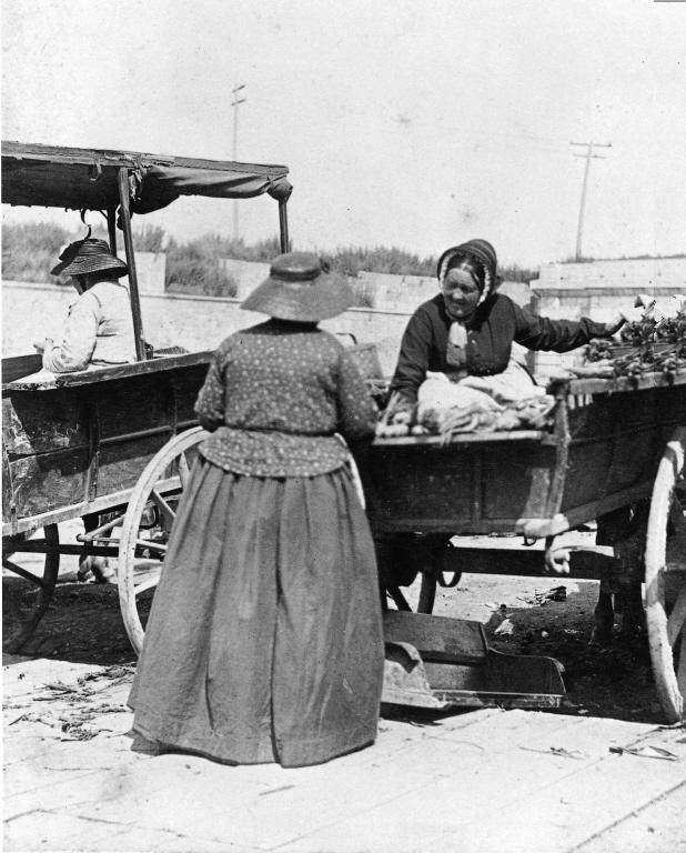 Photograph, Vendors at the Montcalm Market, Quebec City, QC, about 1890, Anonymous. Silver salts on paper mounted on card - Albumen process - 12.7 x 10.2 cm